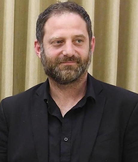 President of Israel, Reuven Rivlin, with the personal of the Israeli television serie, Fauda, Wednesday, February 7, 2018. Photo Credit: Mark Neyman / GPO.